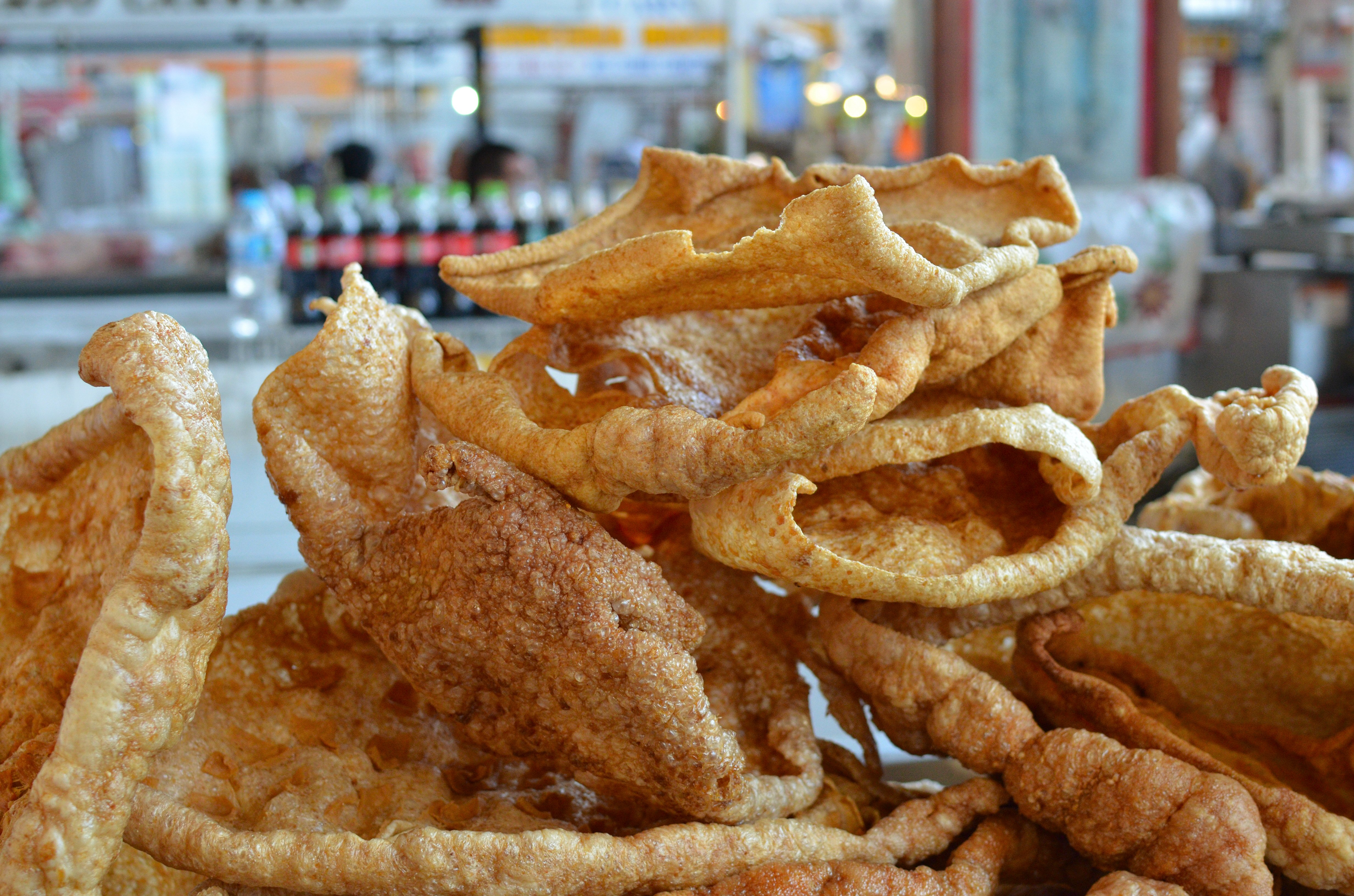 Mercado (Chicharrón, fried pork rinds) Puebla, Mexico